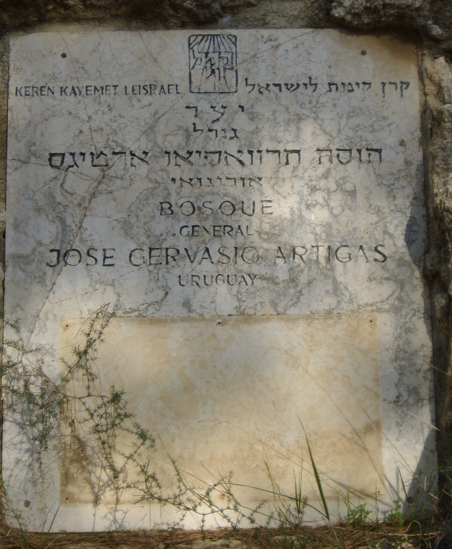 Photograph taken March 18, 2006, in Eshtaol Forest (Hebrew, יער אשתאול), Rabin Park (פארק רבין), Israel, a Jewish National Fund forest. Released into the public domain.